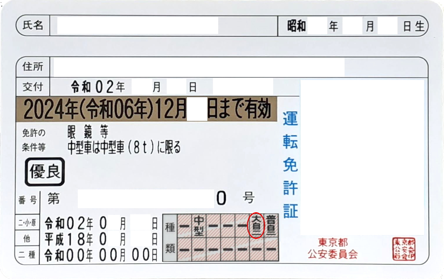 Japanese driving license with category of "heavy motorcycle" circled. Own work based onː 1) 2)